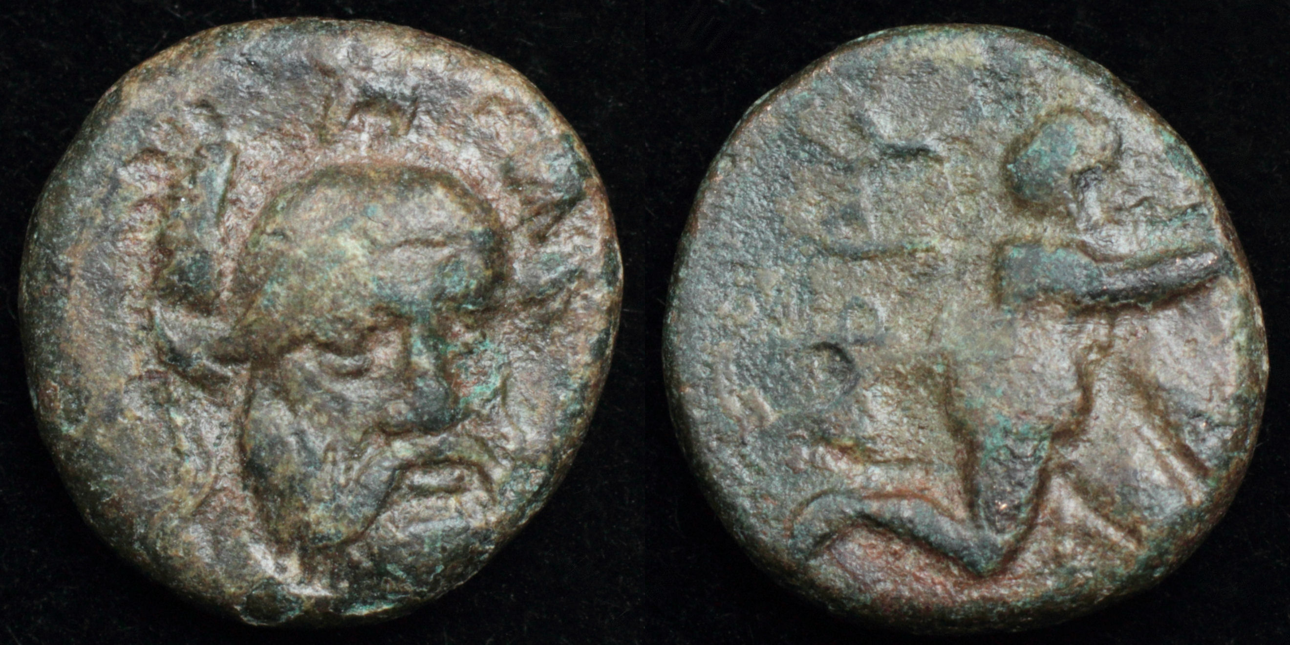 bronze coin from Ophrynion struck circa 350 - 300 BC. Obverse: bearded head of Hector facing slightly right wearing triple crested helmet Reverse: infant Dionysos right holding bunch of grape OΦPY Reference: SNG Cop 456; SNGvA 1559; SNG München 299, BMC Troas p. 75, 4